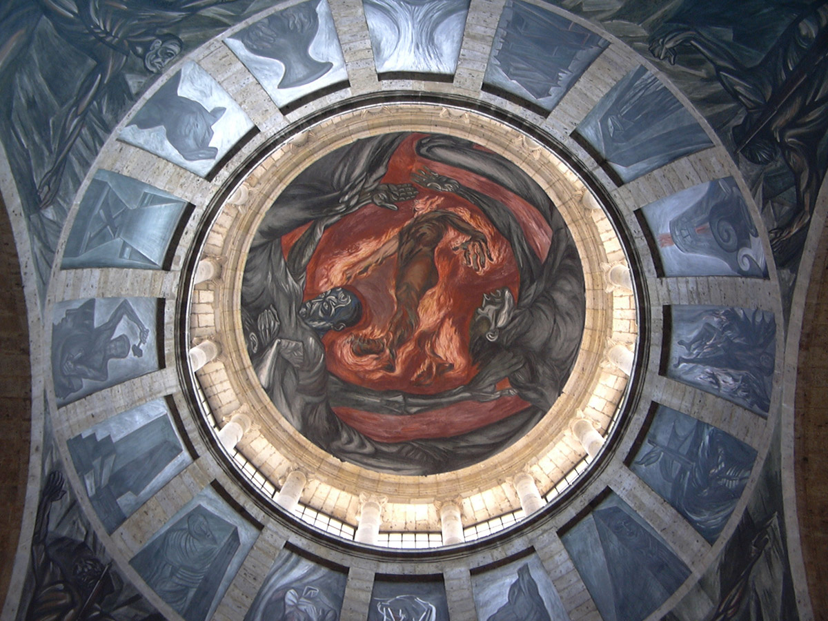 A photo of works of José Clemente Orozco at the upper ceiling of Hospicio Cabañas, a world heritege site, in Guadalajara, Jalisco, Mexico. Shot in October, 2006. My own work.